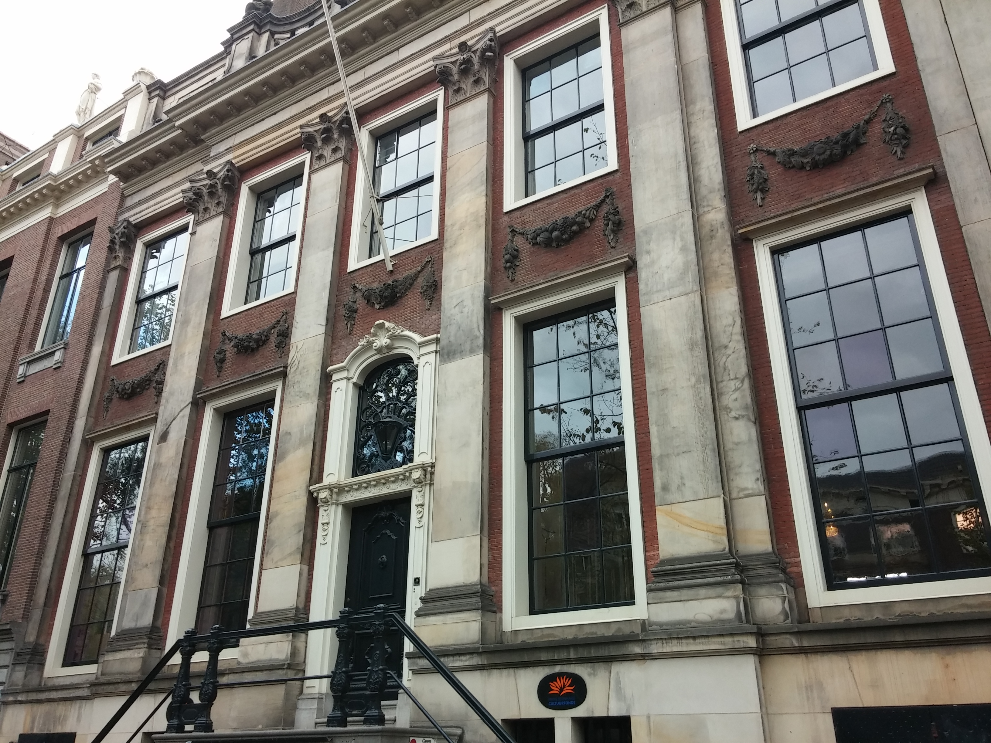 House De Vicq, a canalhouse built in 1670 on Herengracht 476, in Amsterdam.